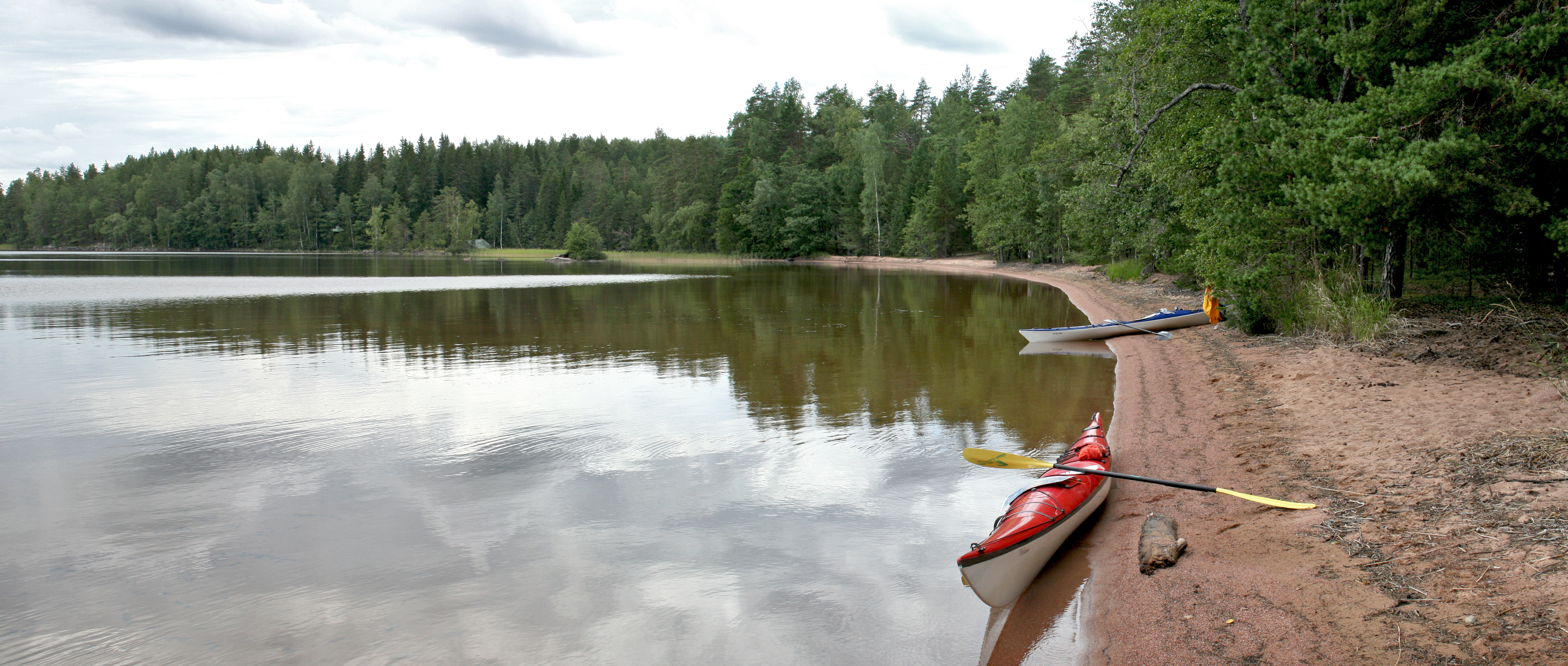 Lake Kuolimo, beach on Suomensalo near Lintuniemi